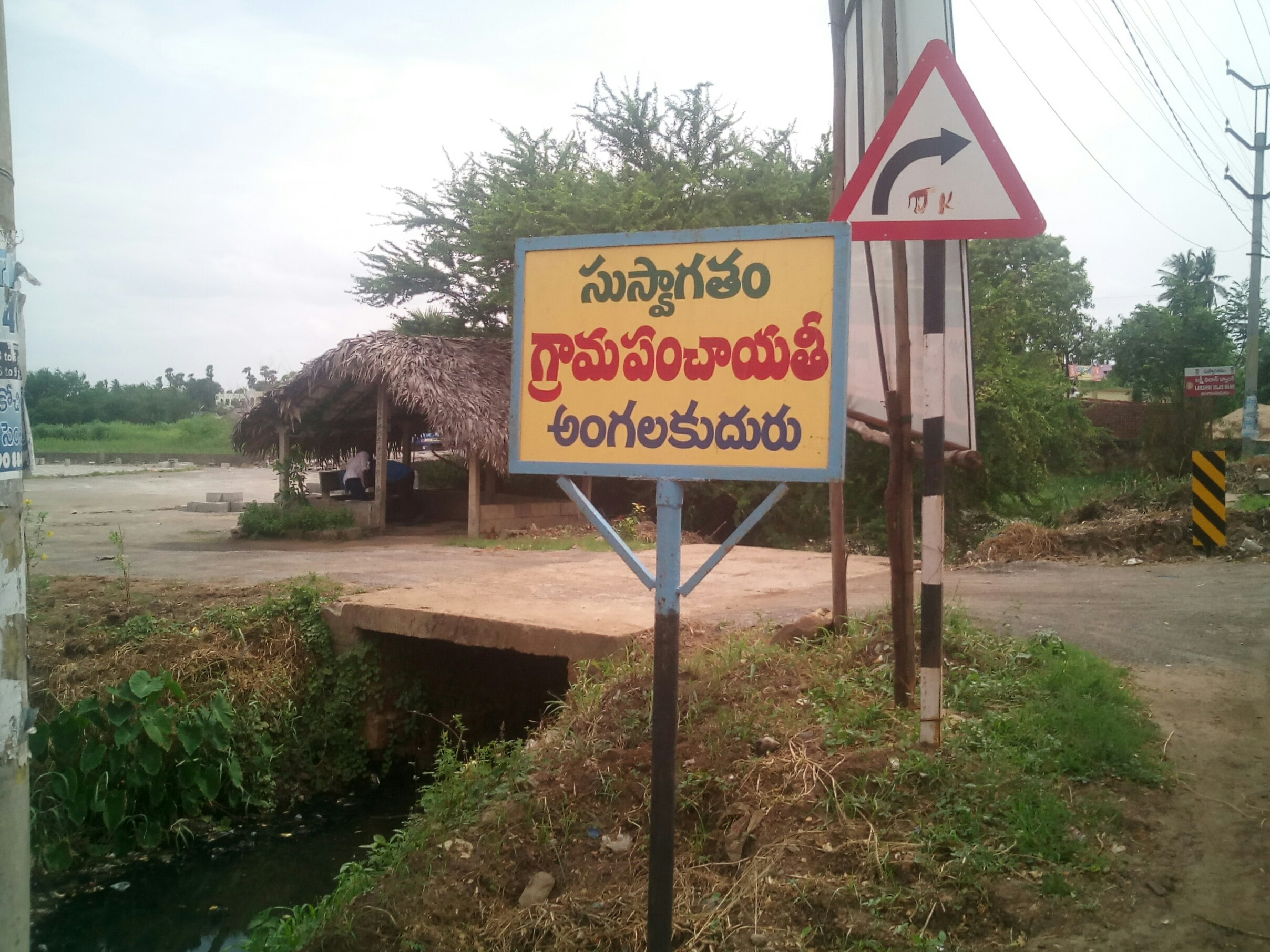 Angalakuduru gram panchayat welcome board in Telugu language